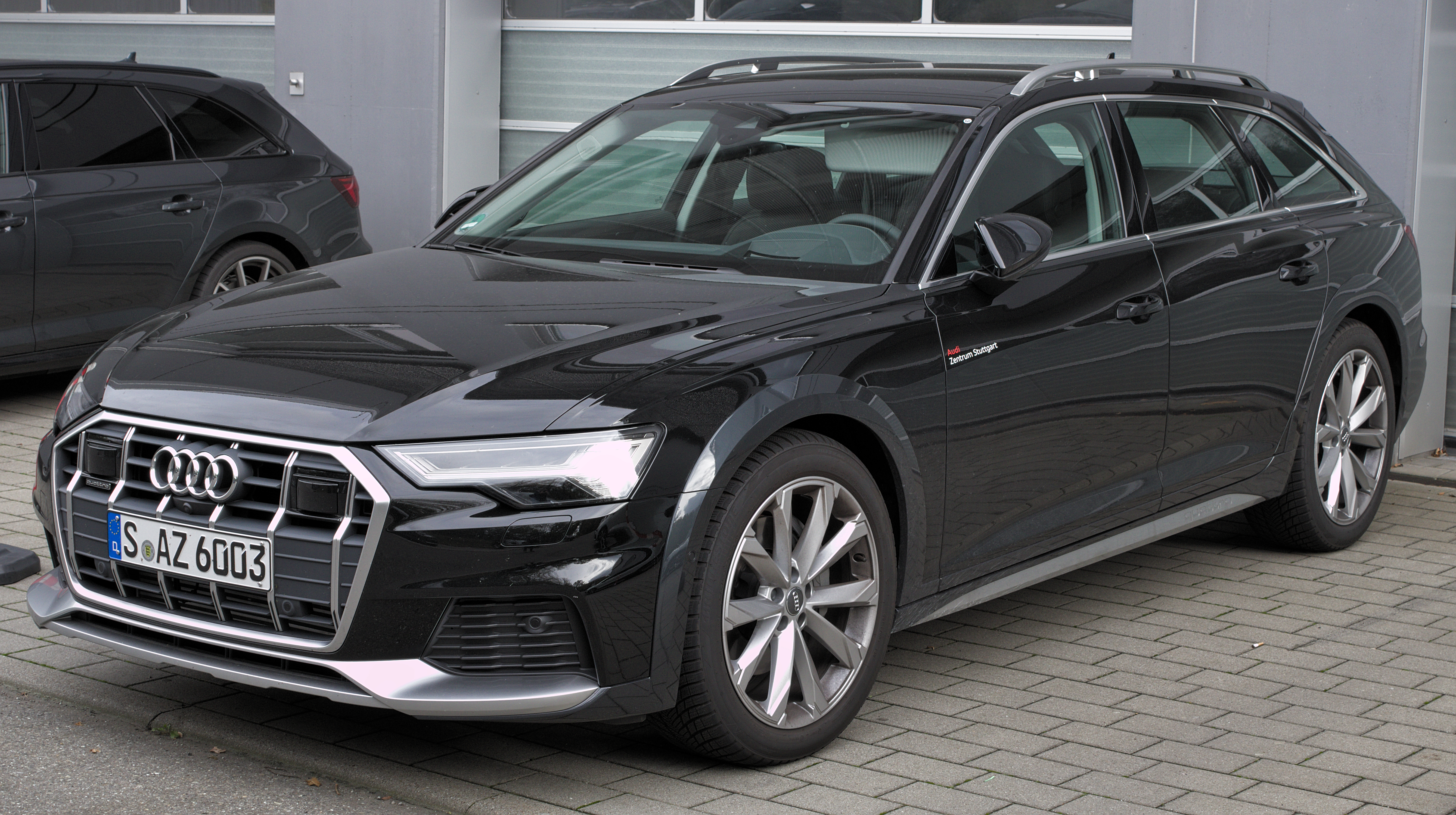 Audi_A6_Allroad_Quattro_C8 in Stuttgart-Vaihingen